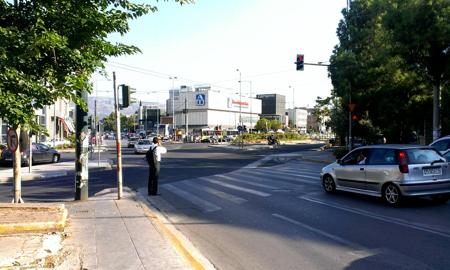 psychiko